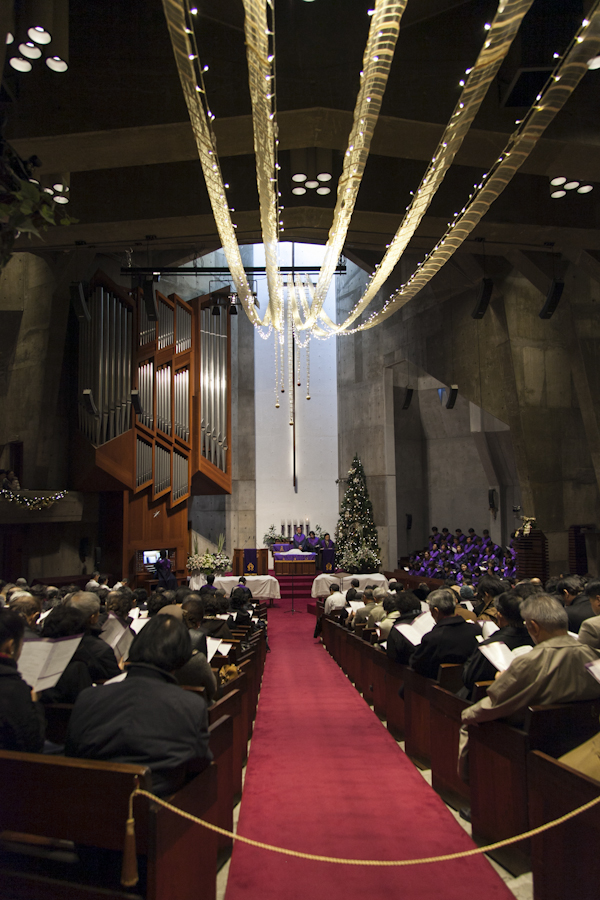 Inside Kyungdong Presbyterian Church